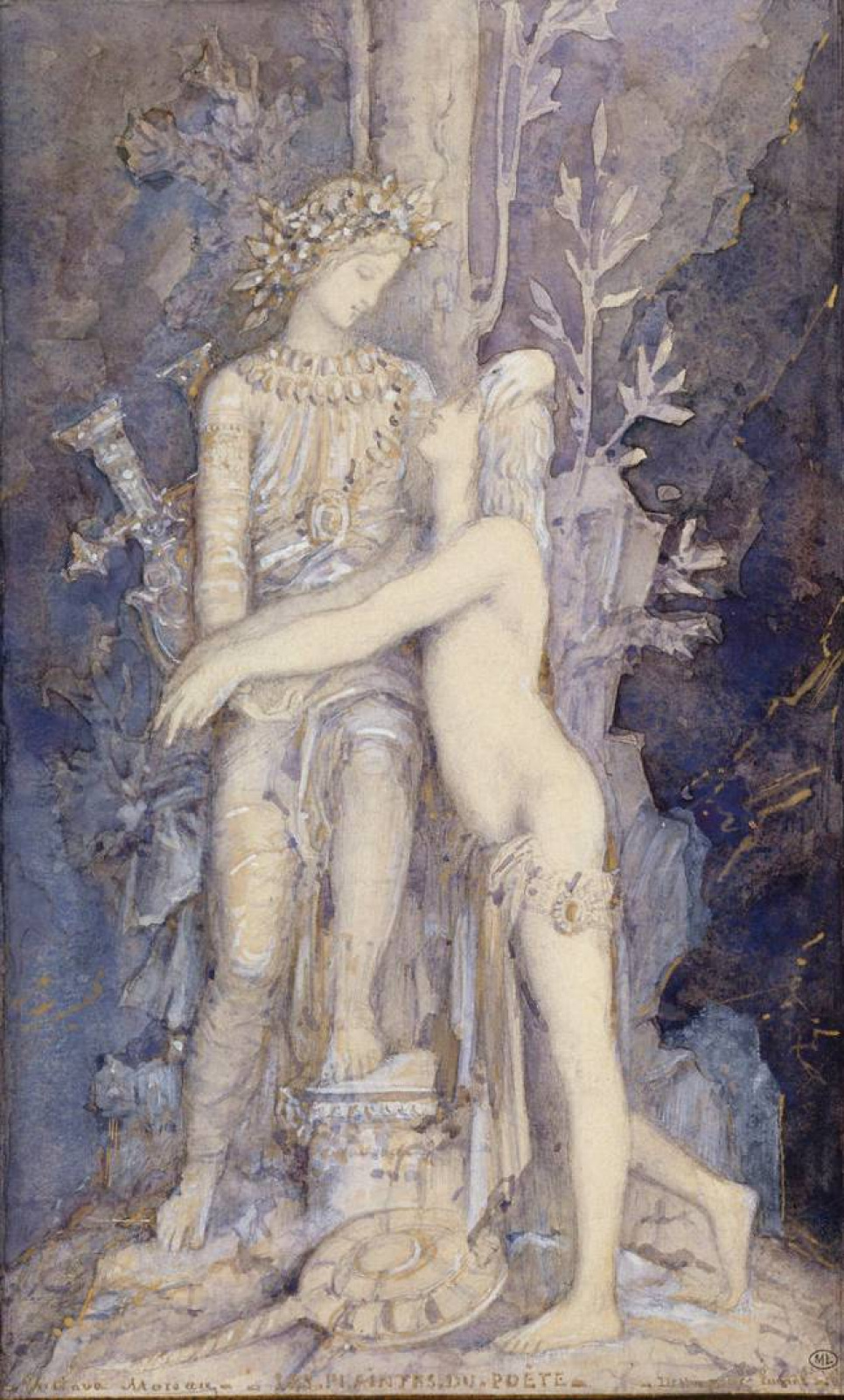 watercolor by Gustave Moreau